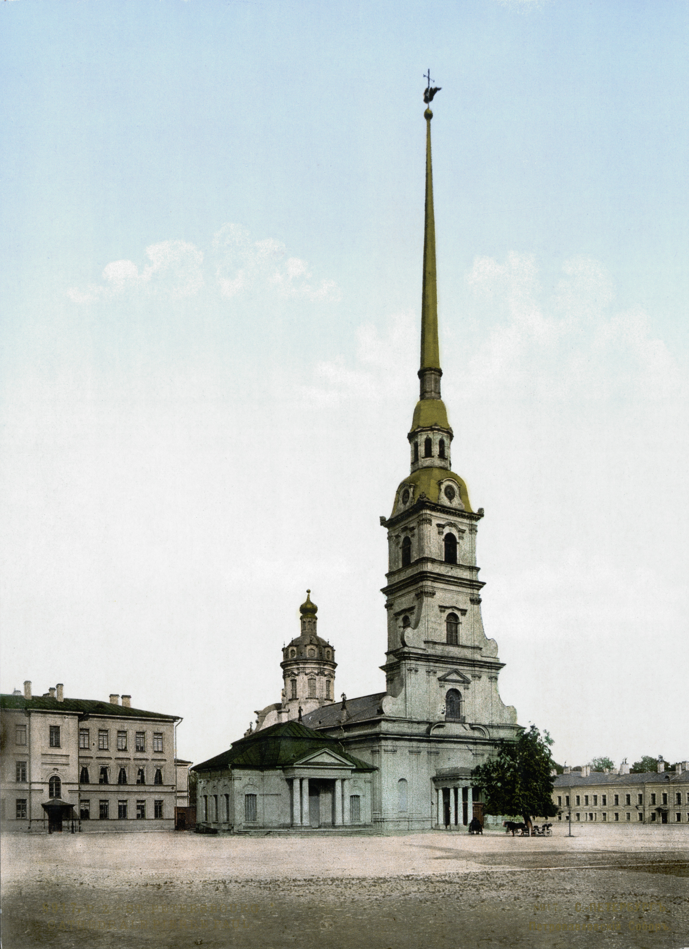 St. Peter and Paul's Cathedral in St Petersburg (Russia). 19th-century photochrome print (1890—1900)